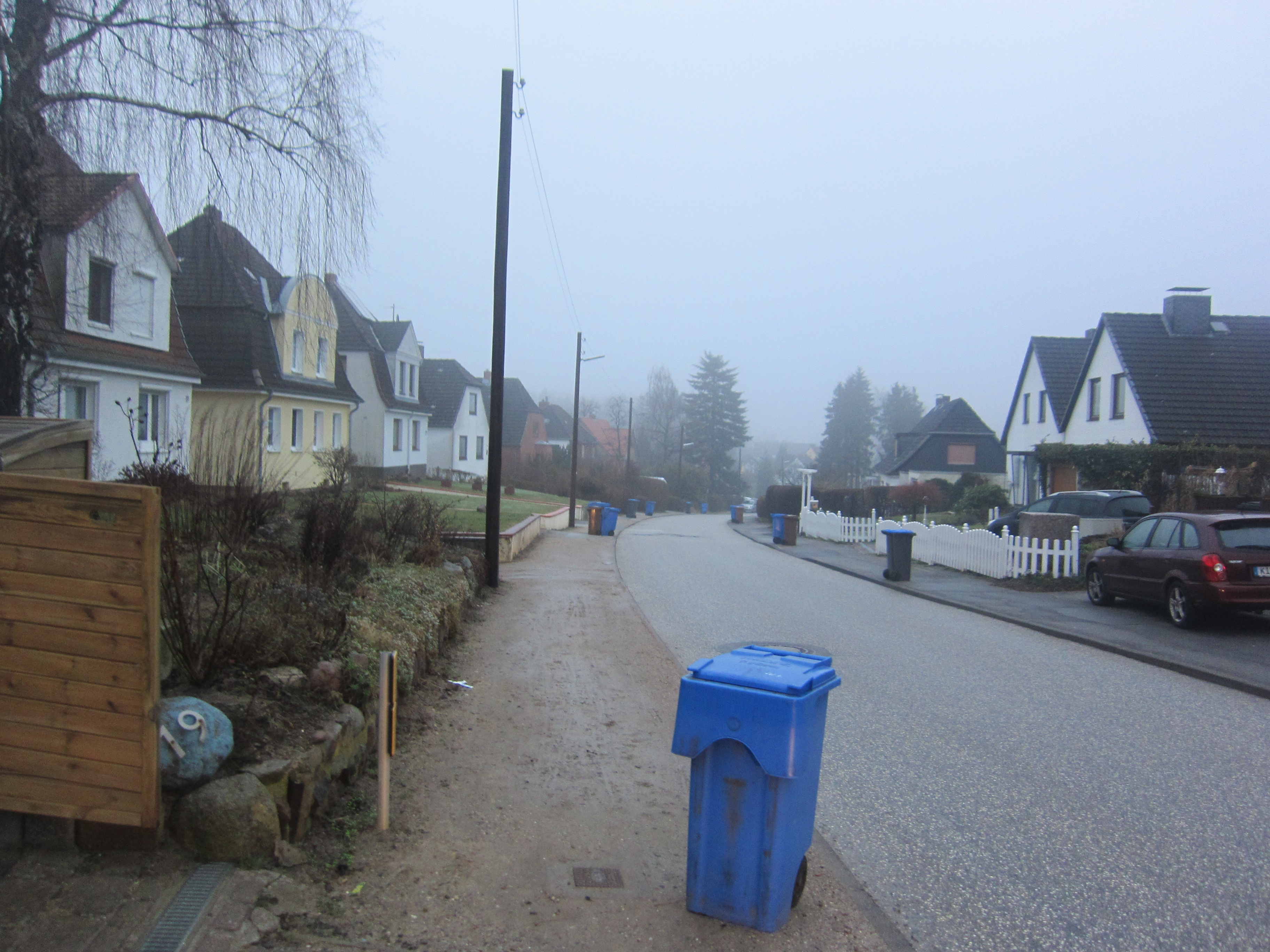 Street "Zeppelinring" in Kiel-Kroog